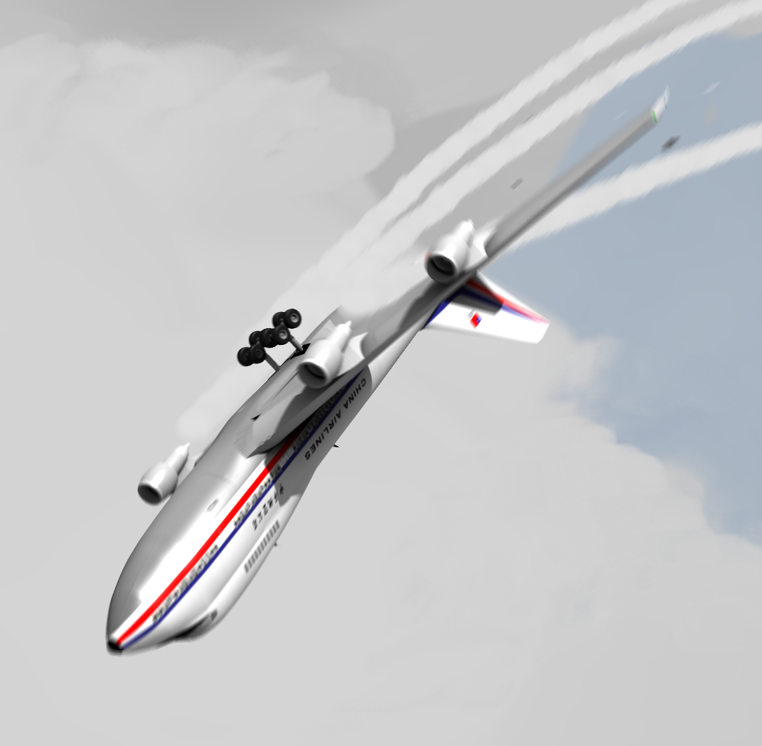 China Airlines Flight 006 exceeded maximum designed speed/g load for a 747. Pieces of both horizontal stabilizers broke away, two of the inboard landing gear doors were ripped off causing the inboard main landing gear to drop.